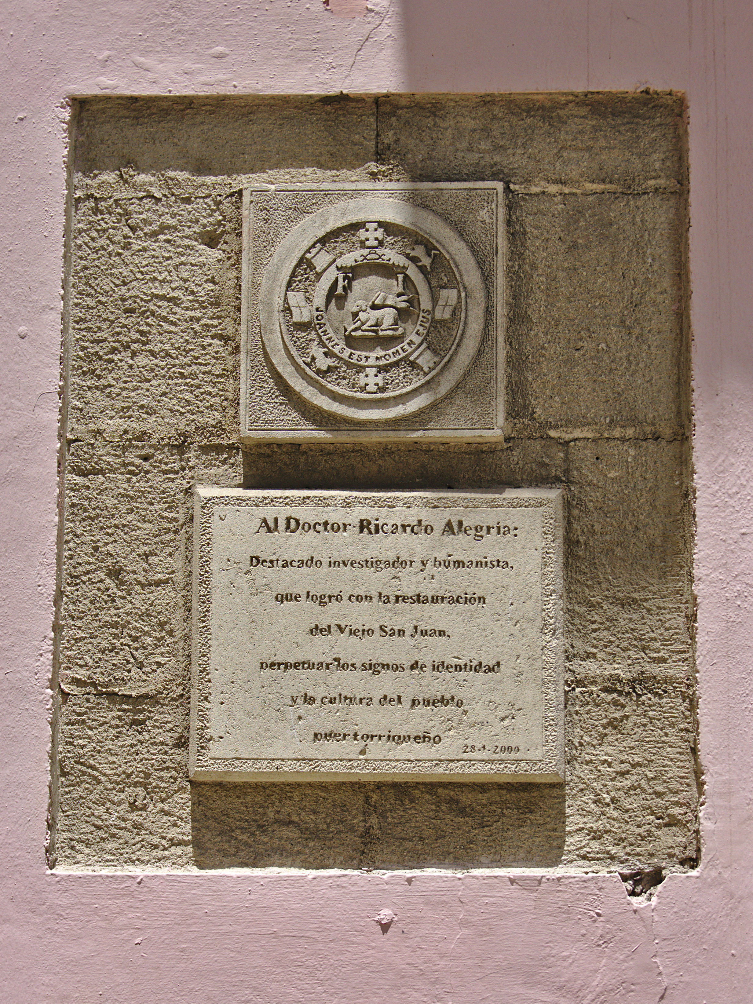 Plaque for Ricardo Alegría in Havana, Cuba. It reads: Al Doctor Ricardo Alegría: Destacado investigador y humanista, que logró con la restauración del Vieja San Juan, perpetuar los signos de identidad y la cultura del pueblo puer torriqueño 28-1-2000